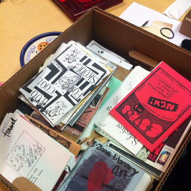 Box of San Francisco punk zines from the 1990s at Prelinger Library, or "blogs in a box"